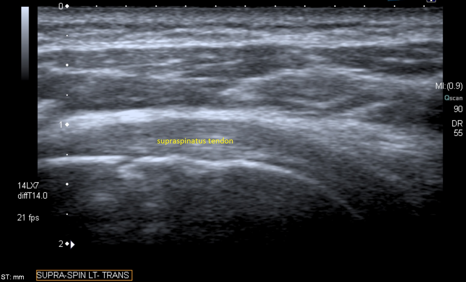 Transversal ultra sonography of the supraspinatus tendon